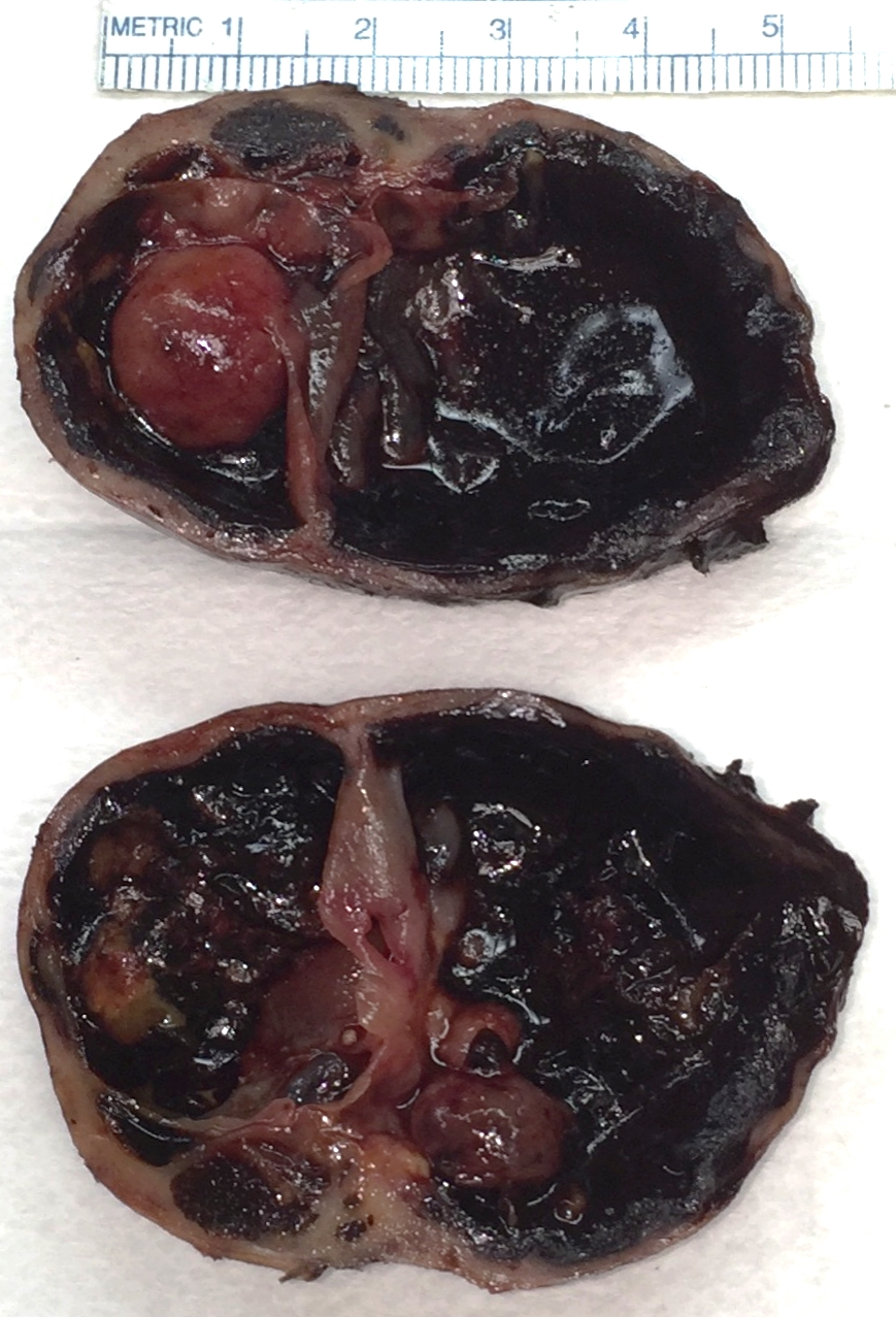 Young woman with a two-week history of dysphagia and palpable neck mass. FNA reported as "suspicious for papillary carcinoma.